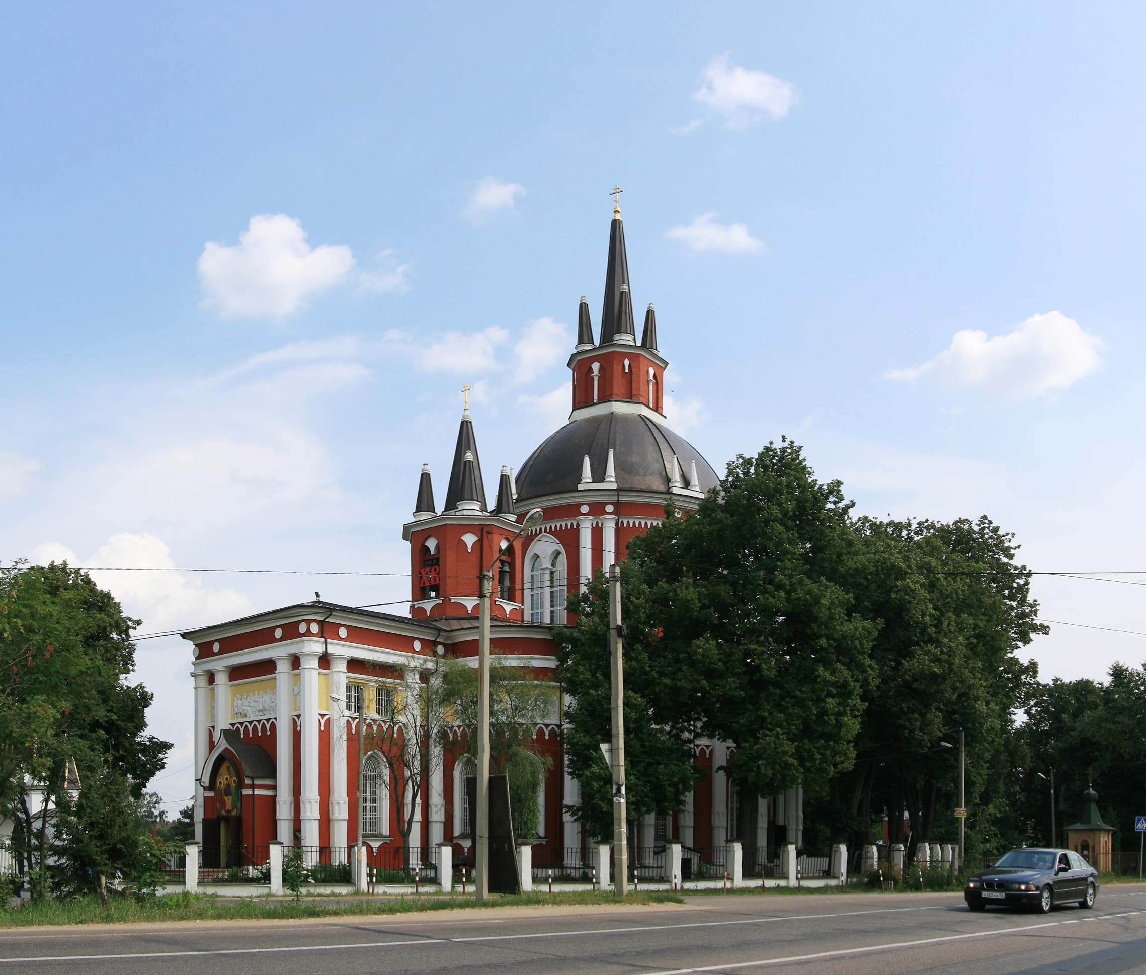 Church of St. Nicholas, Tsarevo, Moscow Oblast